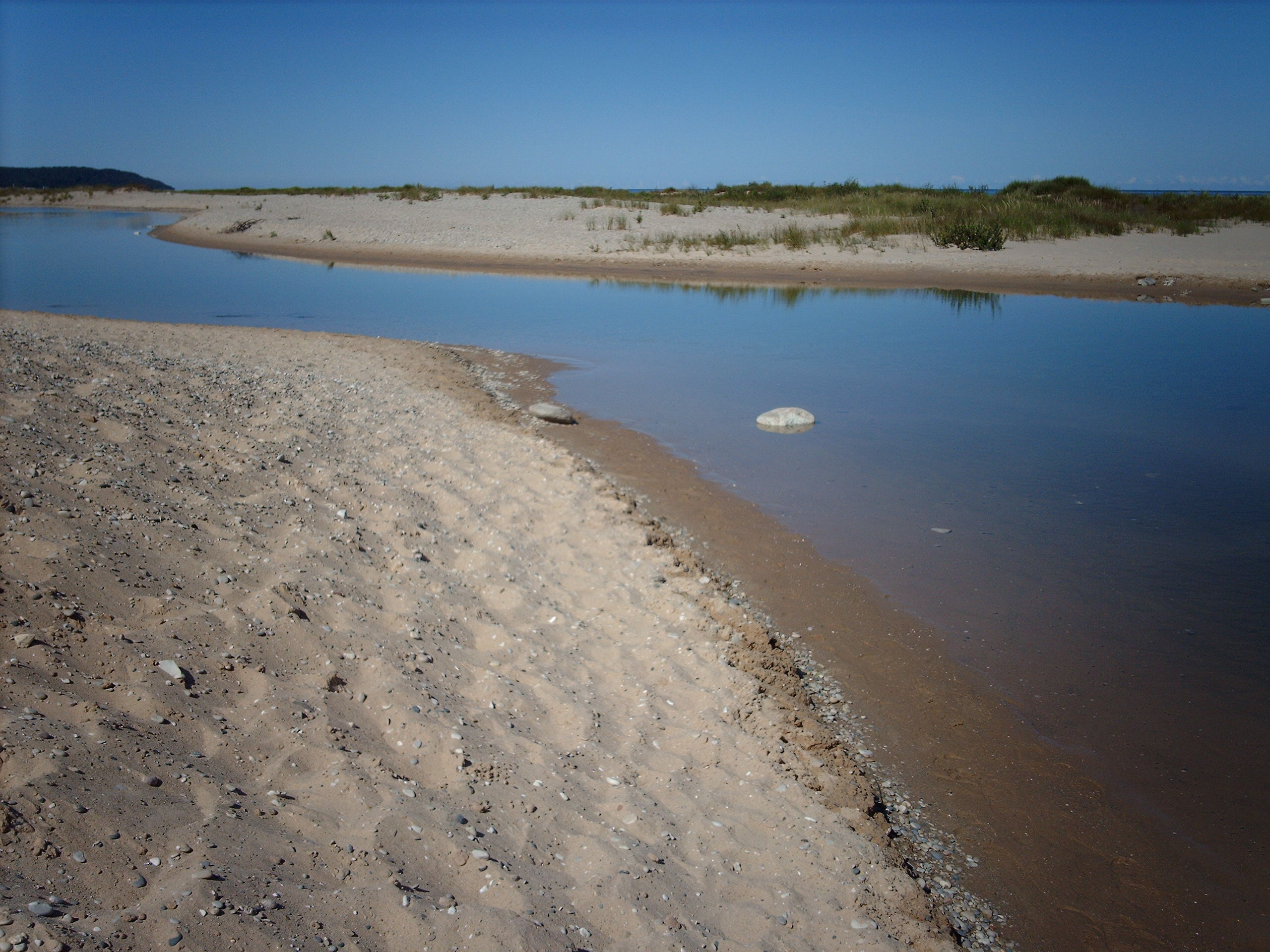 Platte River near Lake Michigan